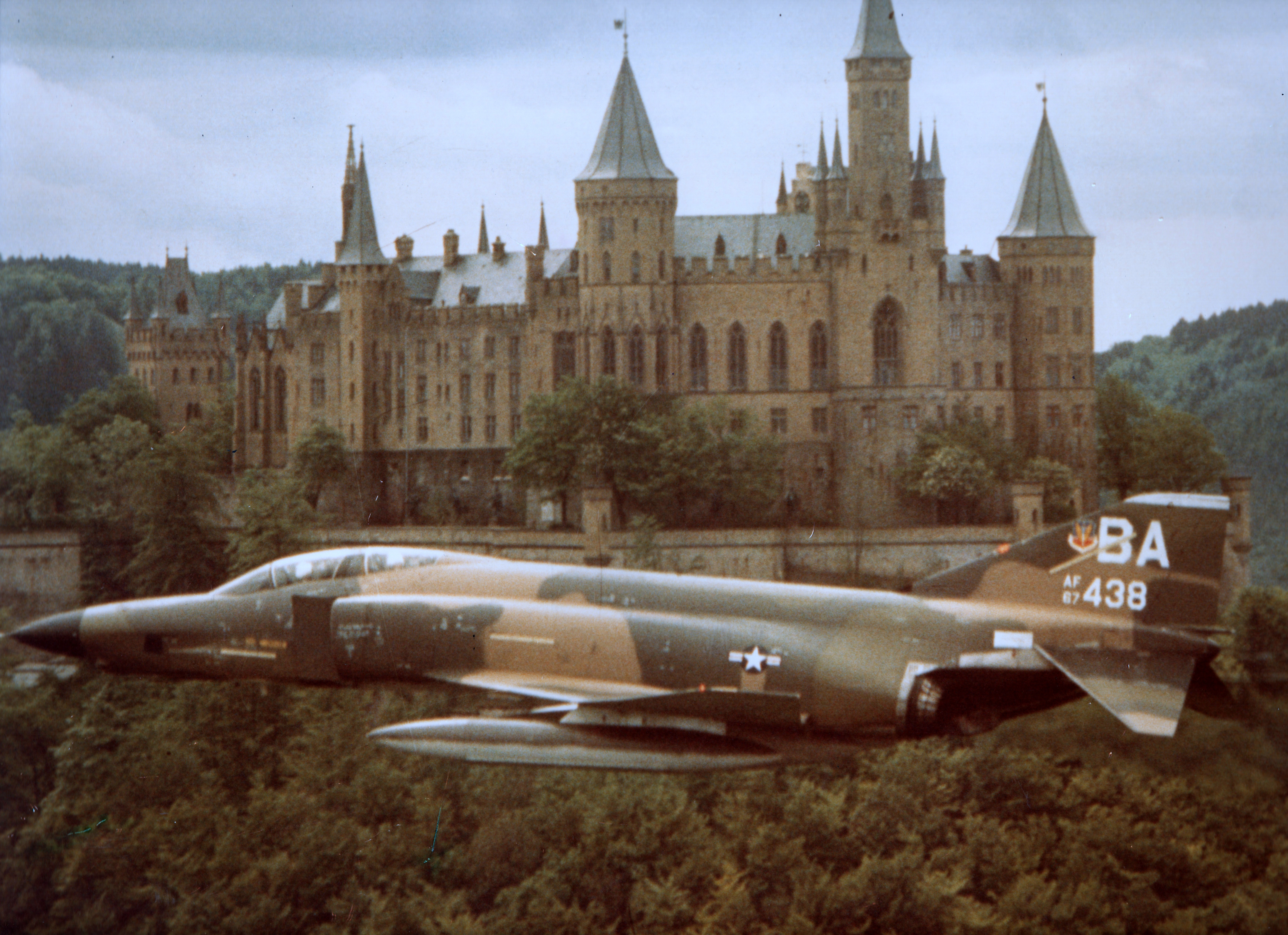 A U.S. Air Force McDonnell Douglas RF-4C-33-MC Phantom II (s/n 67-0438, flight of 2), from the 67th Tactical Reconnaissance Wing flying past Hohenzollern Castle, Germany, circa 1976. The 67th TRW was based at Bergstrom Air Force Base, Texas (USA).